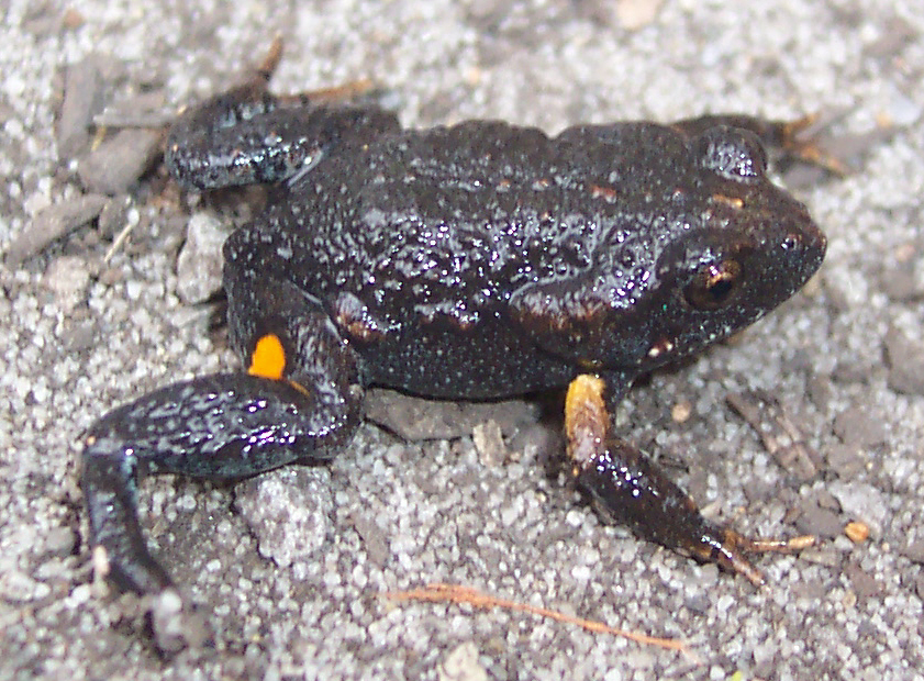 A Dusky Toadlet, (Uperoleia fusca), displaying orange patch in the legs. Category:Frog images